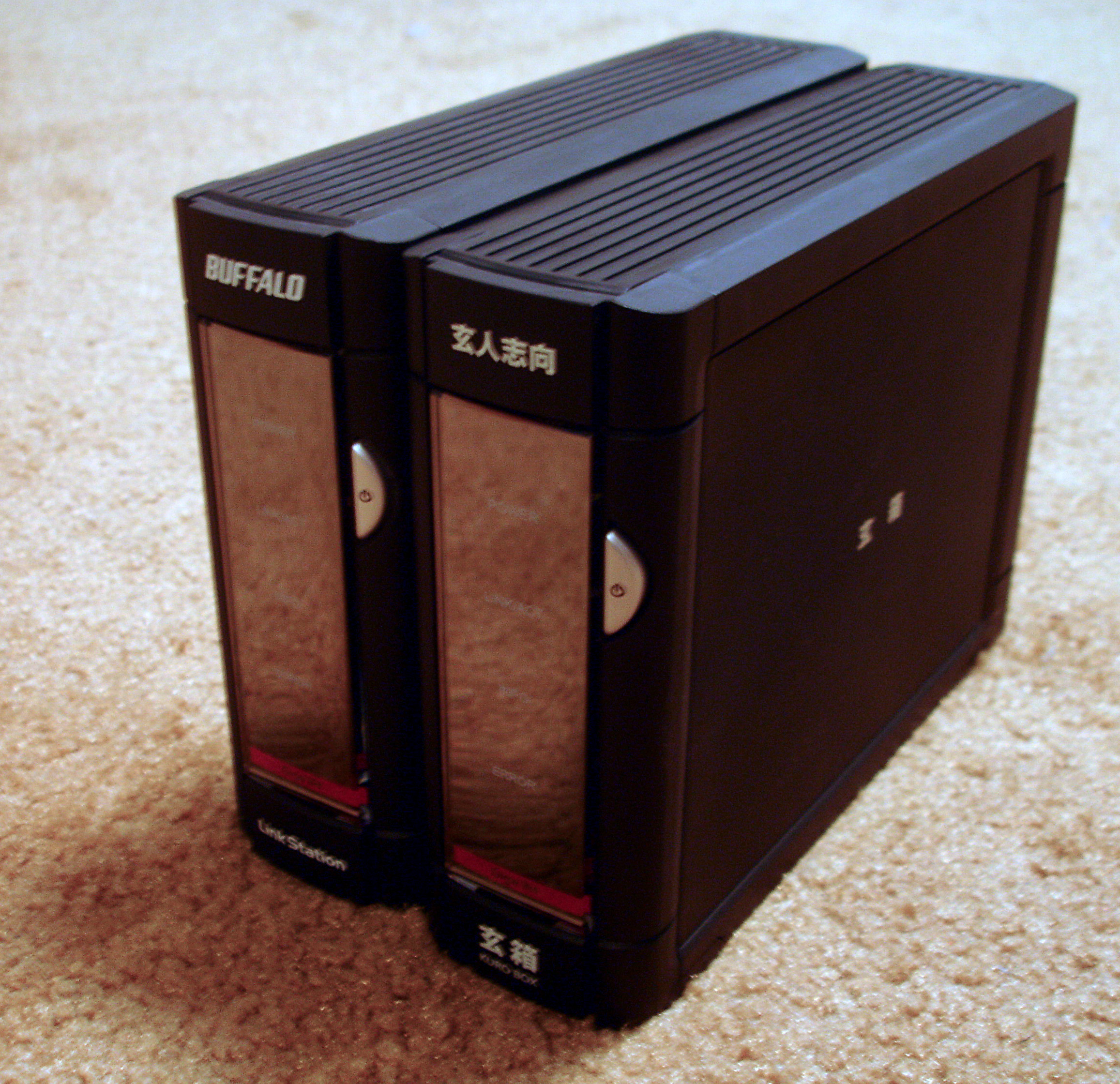 Side-by-side comparison of the Buffalo LinkStation Pro and KuroBox Pro.